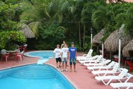 Its file have the picture of the Hotel Bay View in San Carlos, Panama